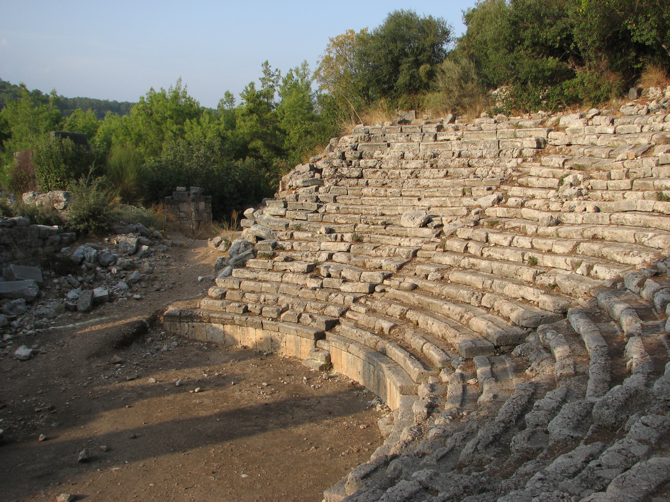 Phaselis, Amphitheatre